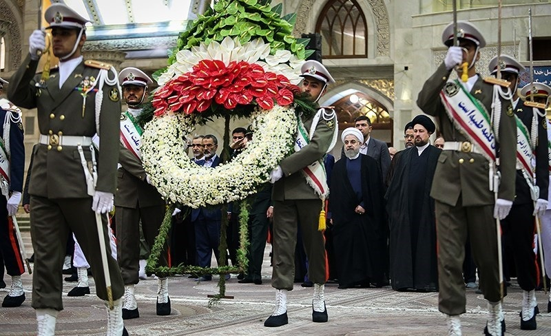 Iran's President, Hassan Rouhani, and his cabinet visiting the mausoleum of the founder of the Islamic Republic, Ruhollah Khomeini, in Behesht Zahra